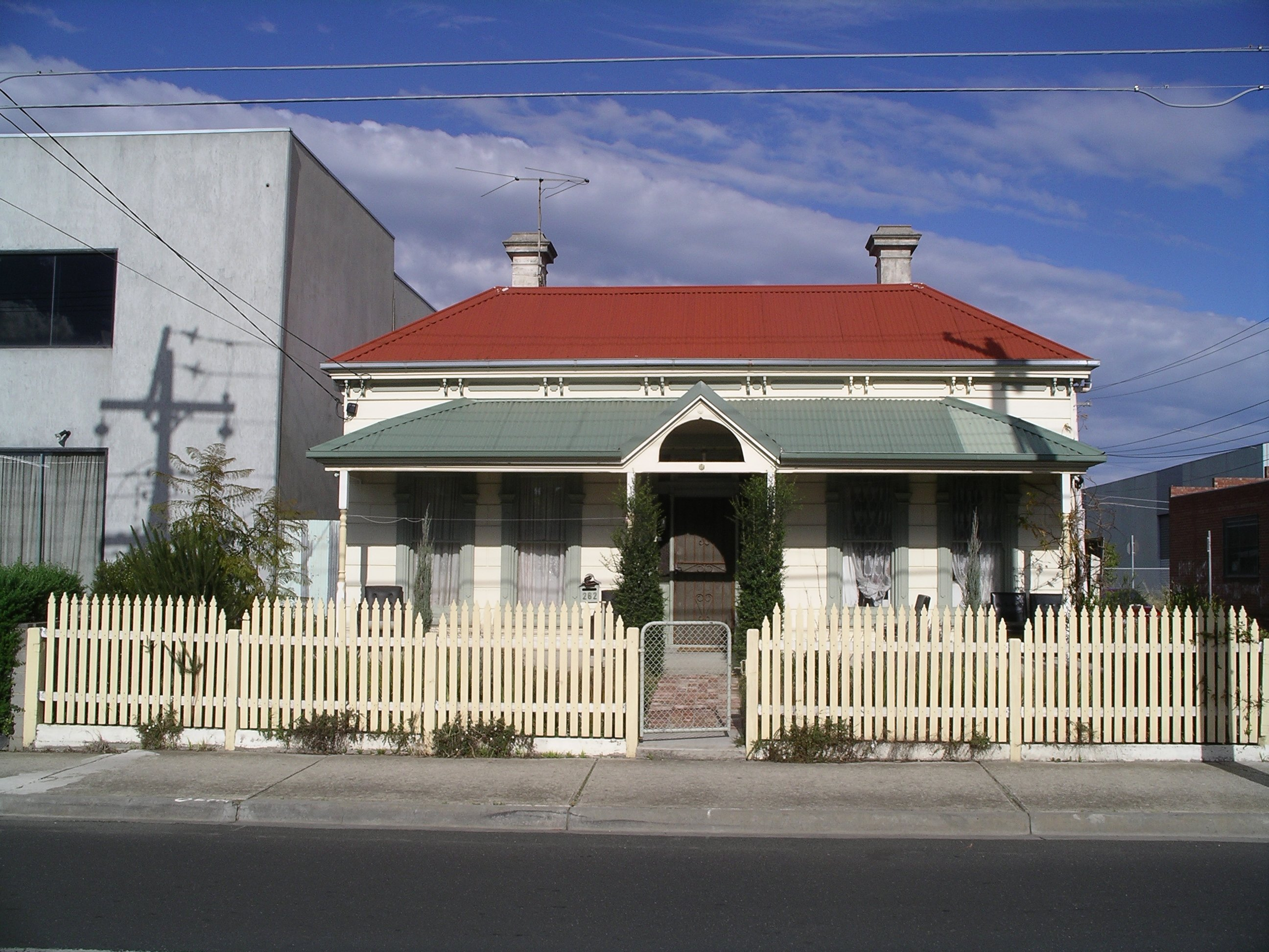 Worker's cottege, Brunswick, Victoria.